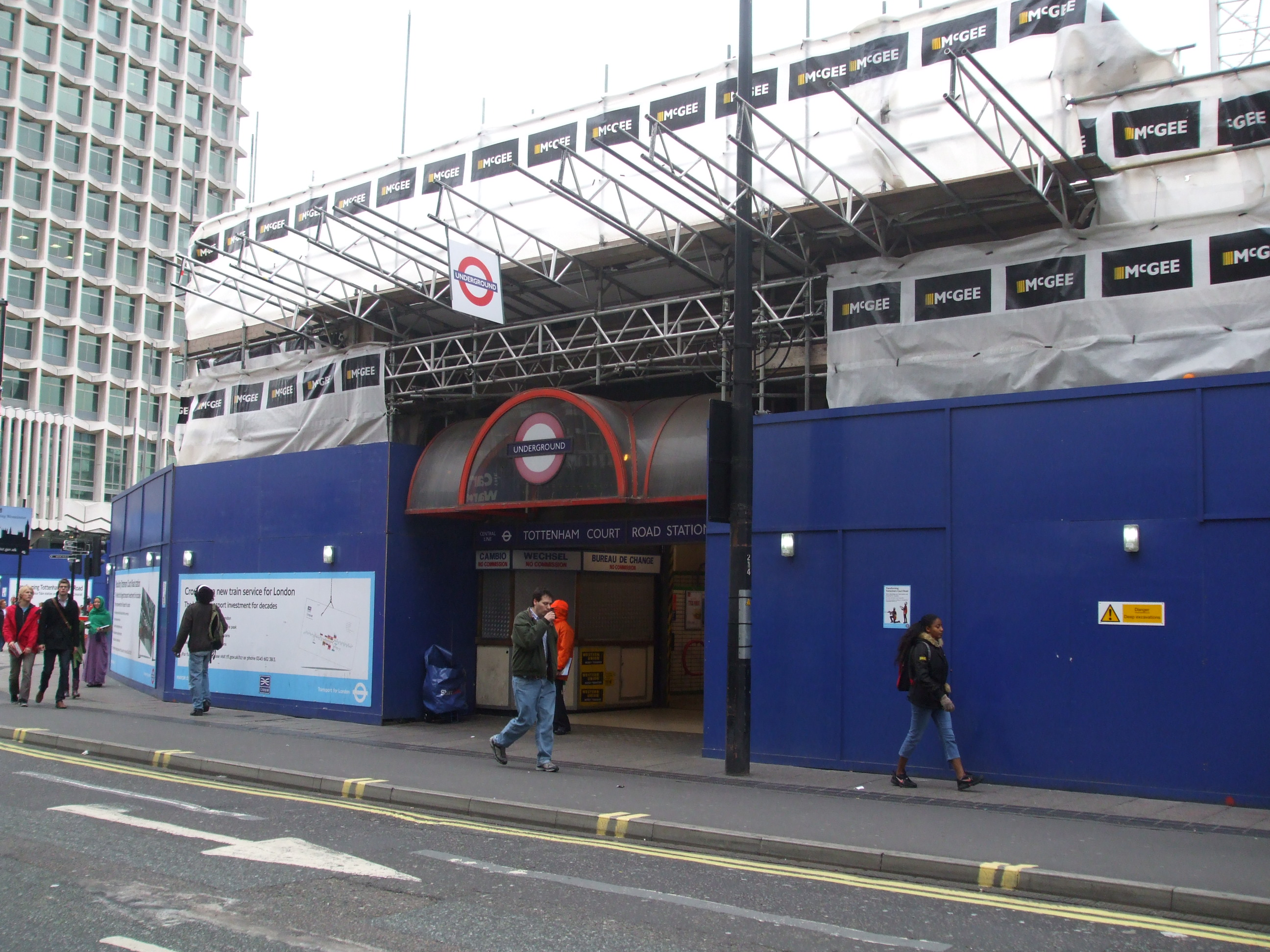 Tottenham Court Road tube station main entrance in Oxford Street under reconstruction in October 2009.